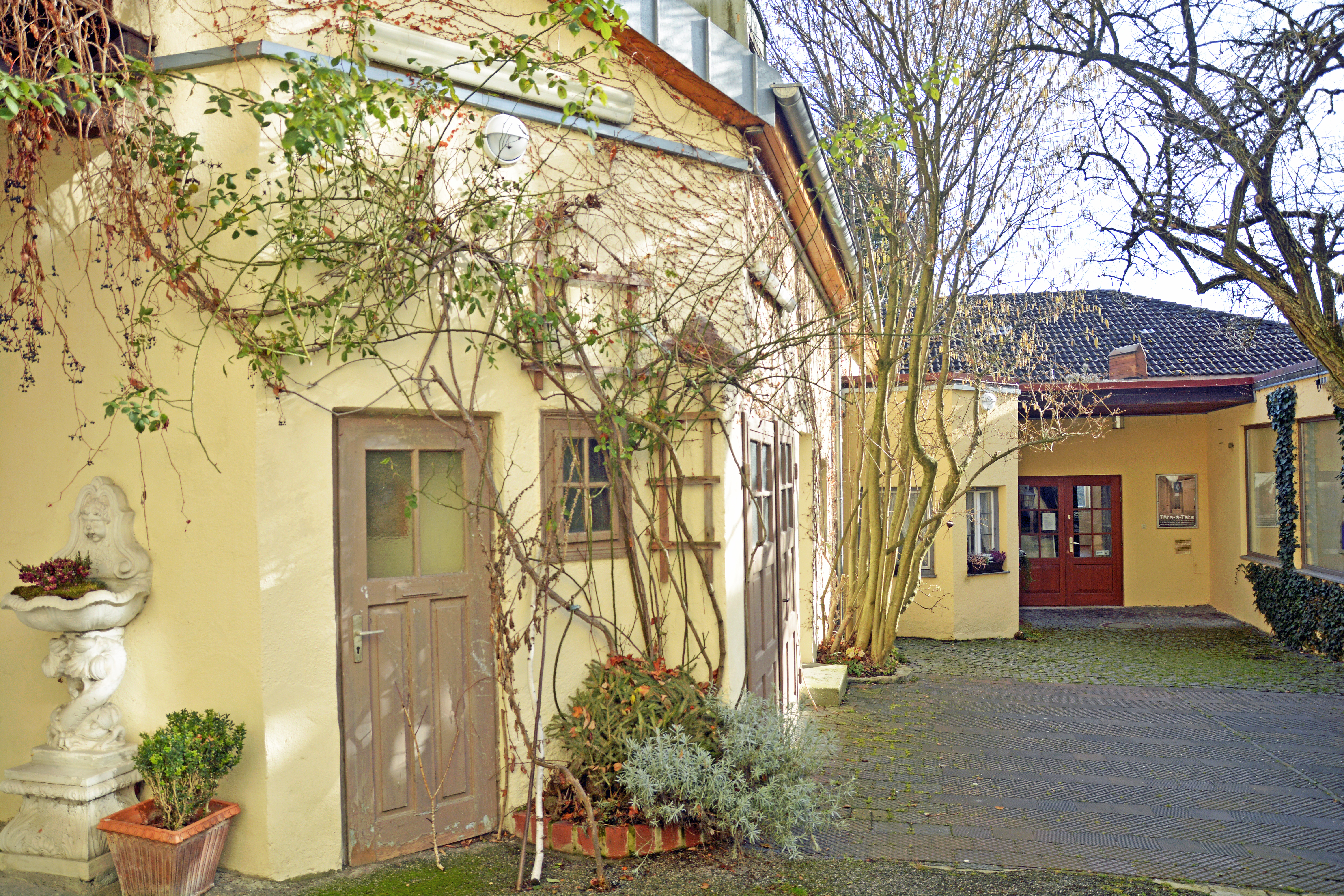 Neue Galerie Dachau